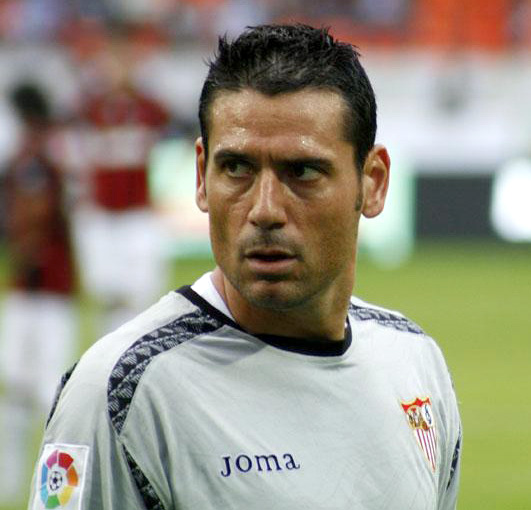 Andres Palop